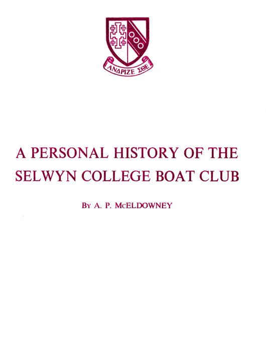 History of the Selwyn College Boat Club (Cambridge University)